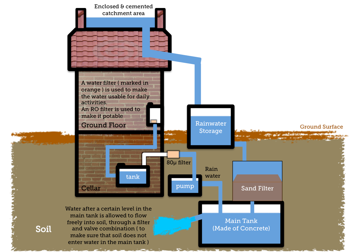 A simple diagram to show the various parts and functions of a Rooftop rainwater harvesting system. The process shown in the figure makes the collected rainwater suitable for drinking or common household use The parts shown are: Catchment area Filter Main tank Sand filter Rainwater storage tank Pump Building Tubes